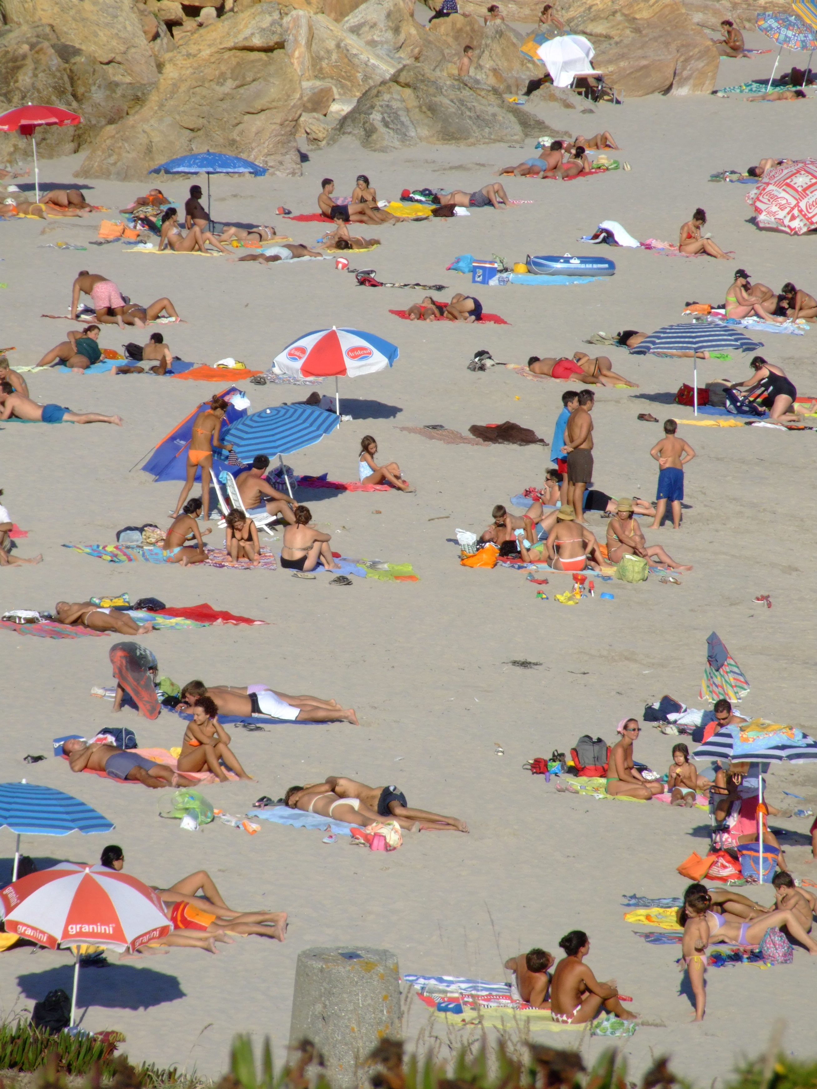 Late in the afternoon on a beach in Spain.